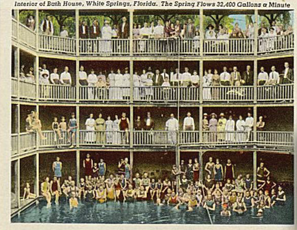 Photograph of bath house surrounding White Springs showing people on all four levels